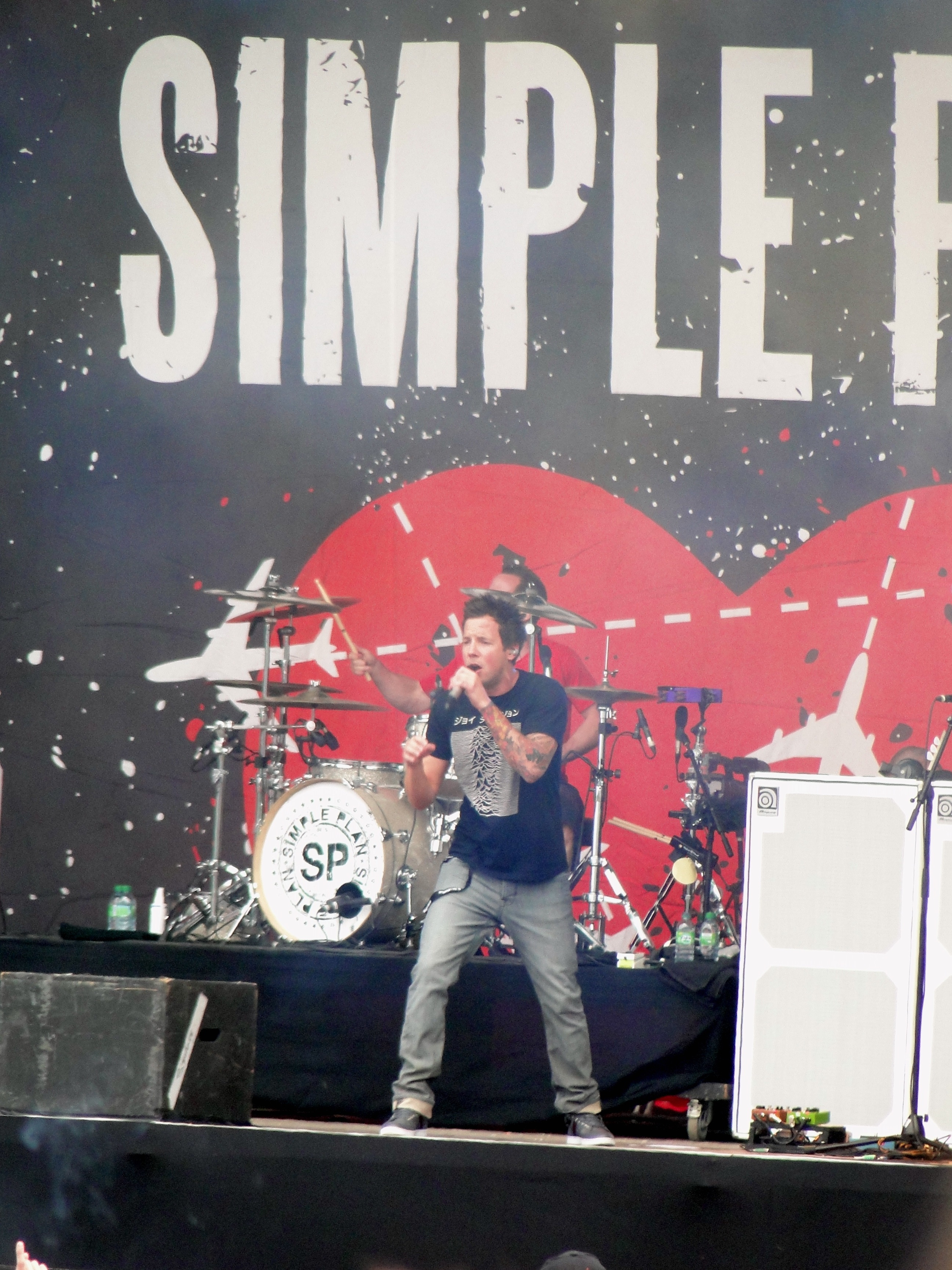 Simple Plan performing at Rock en Seine Festival, 2011